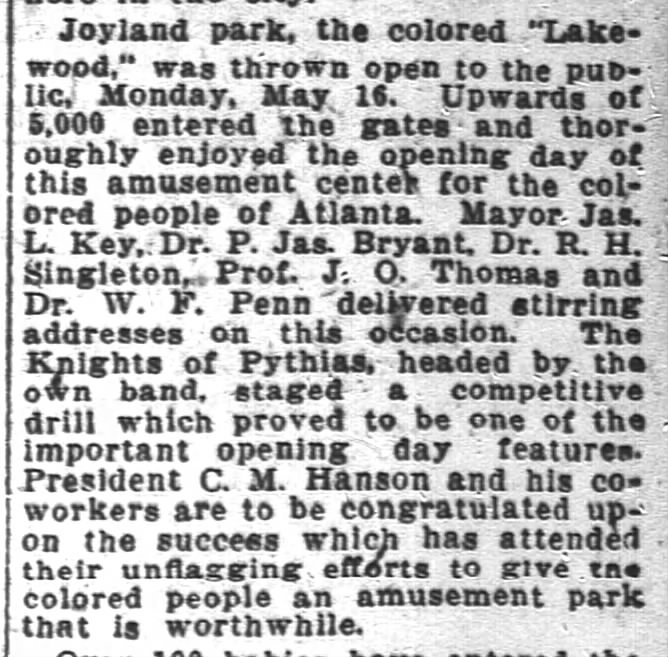 Atlanta Constitution article describing the opening of Joyland Park, May 22, 1921